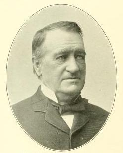 Portrait of New York Court of Appeals judge George F. Danforth